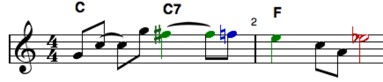 Showing note categorization by coloration.